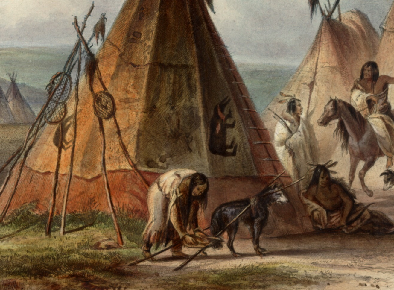 Dog with a travois in an Assiniboine camp on the Upper Missouri. Detail of painting by Karl Bodmer to use in article about the "Travois